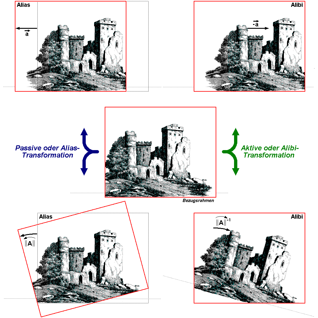 Comparison of alias and alibi transformations on the example of a translation and rotation